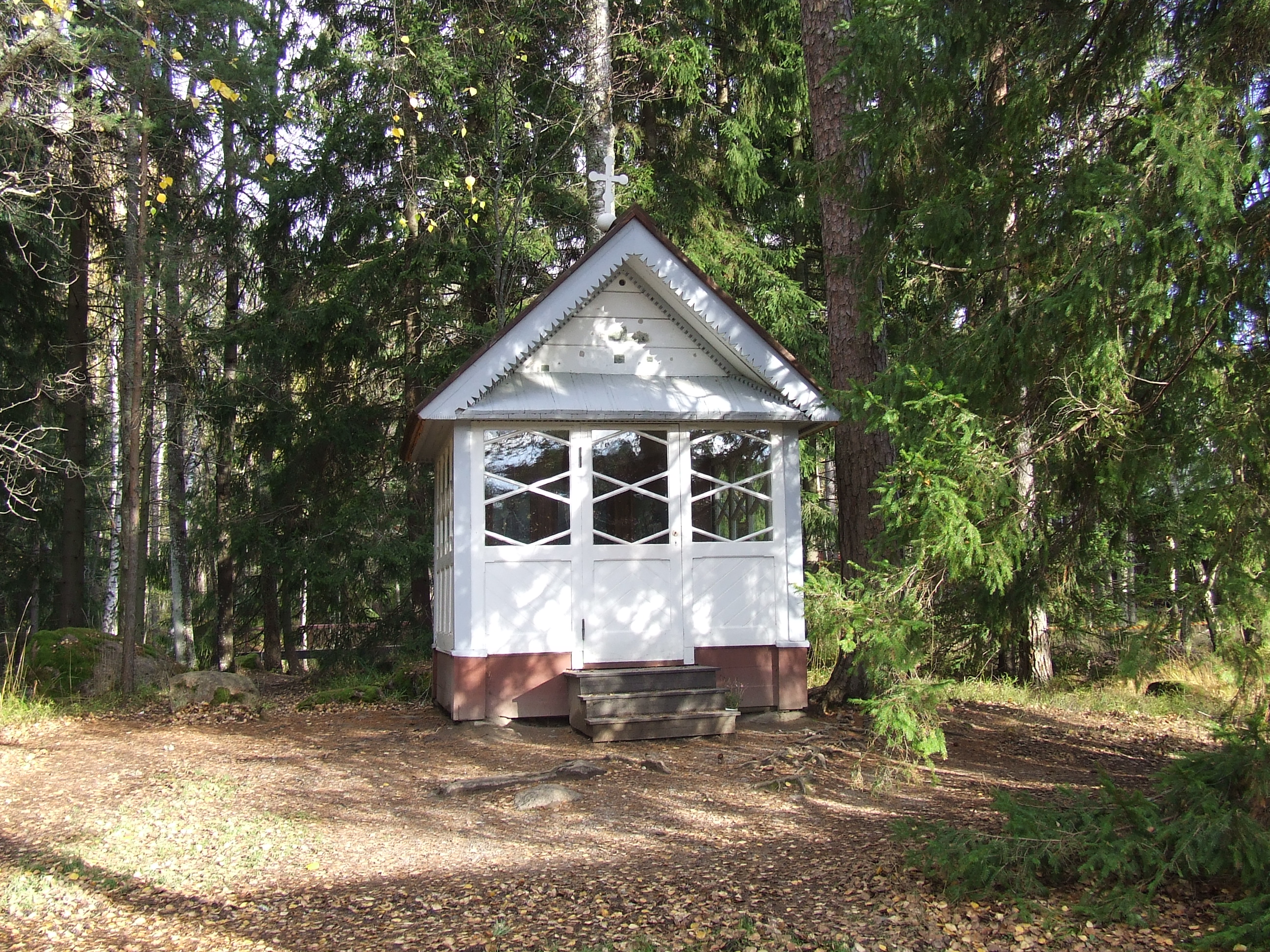 A small orthodox chapel near the Langinkoski Imperial Fishing Lodge in Kotka, Finland.